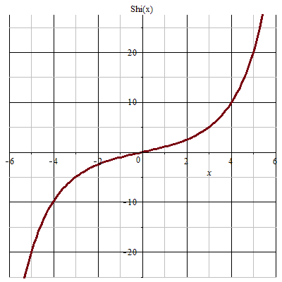 Shi(x) 2D plot